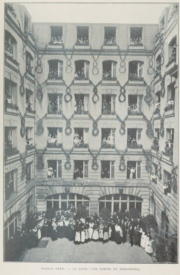 Maison Beer, photographic print of the courtyard of the fashion house in Paris, at 7 Place Vendôme, showing all the employees.